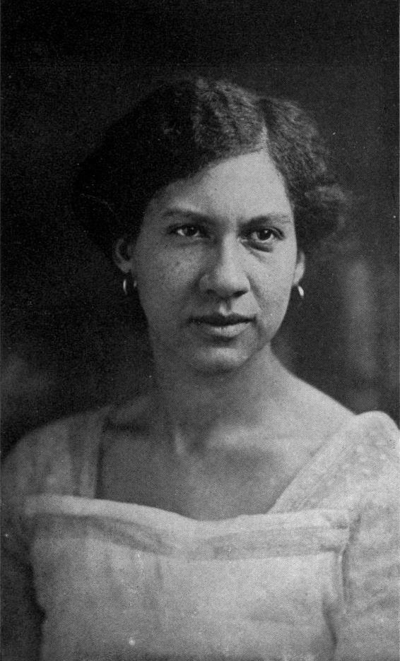 Meta Warrick Fuller (1877–1968), American artist